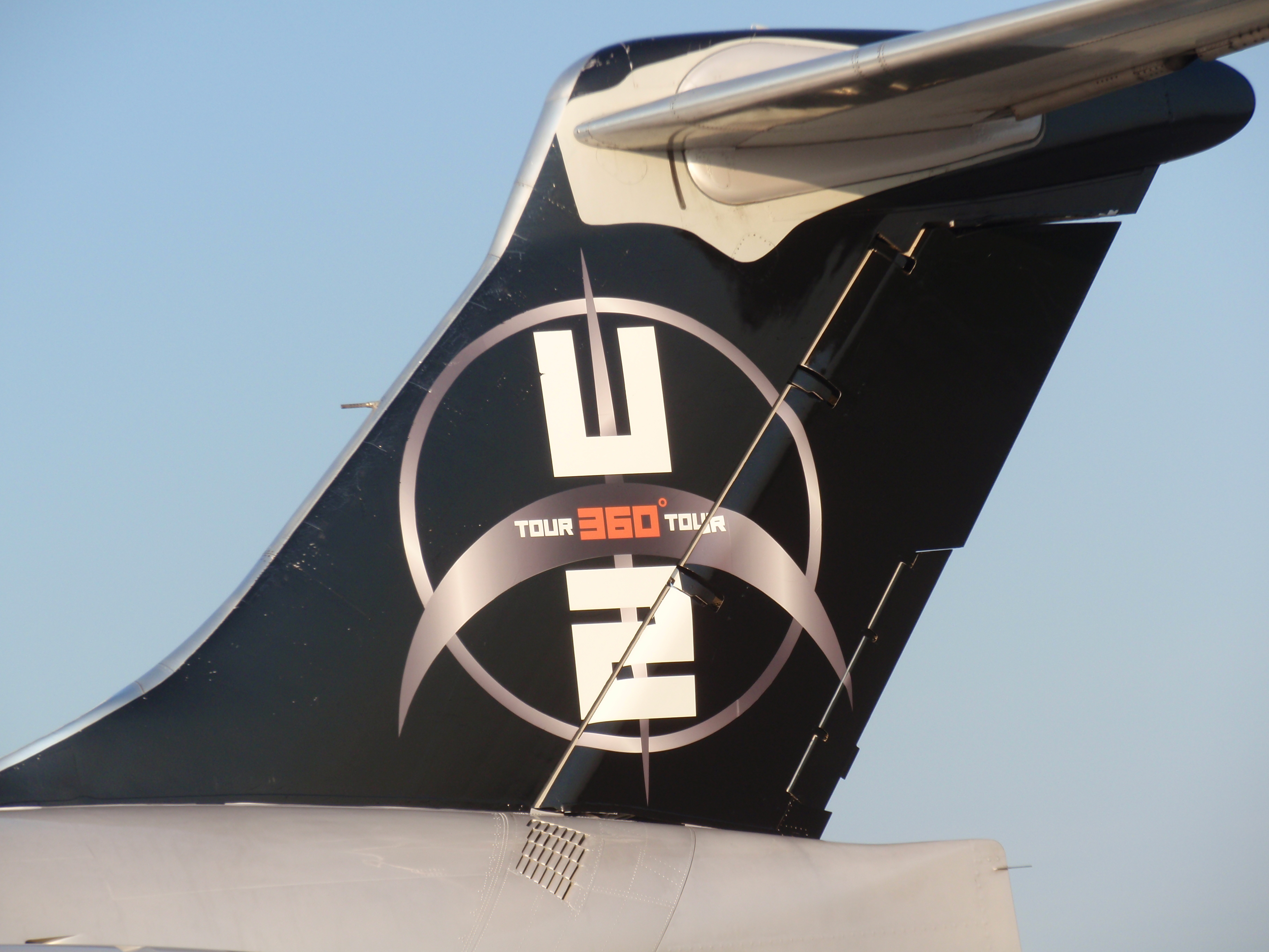 U2 (McDonnell Douglas MD-83 (F-GMLK) tail)